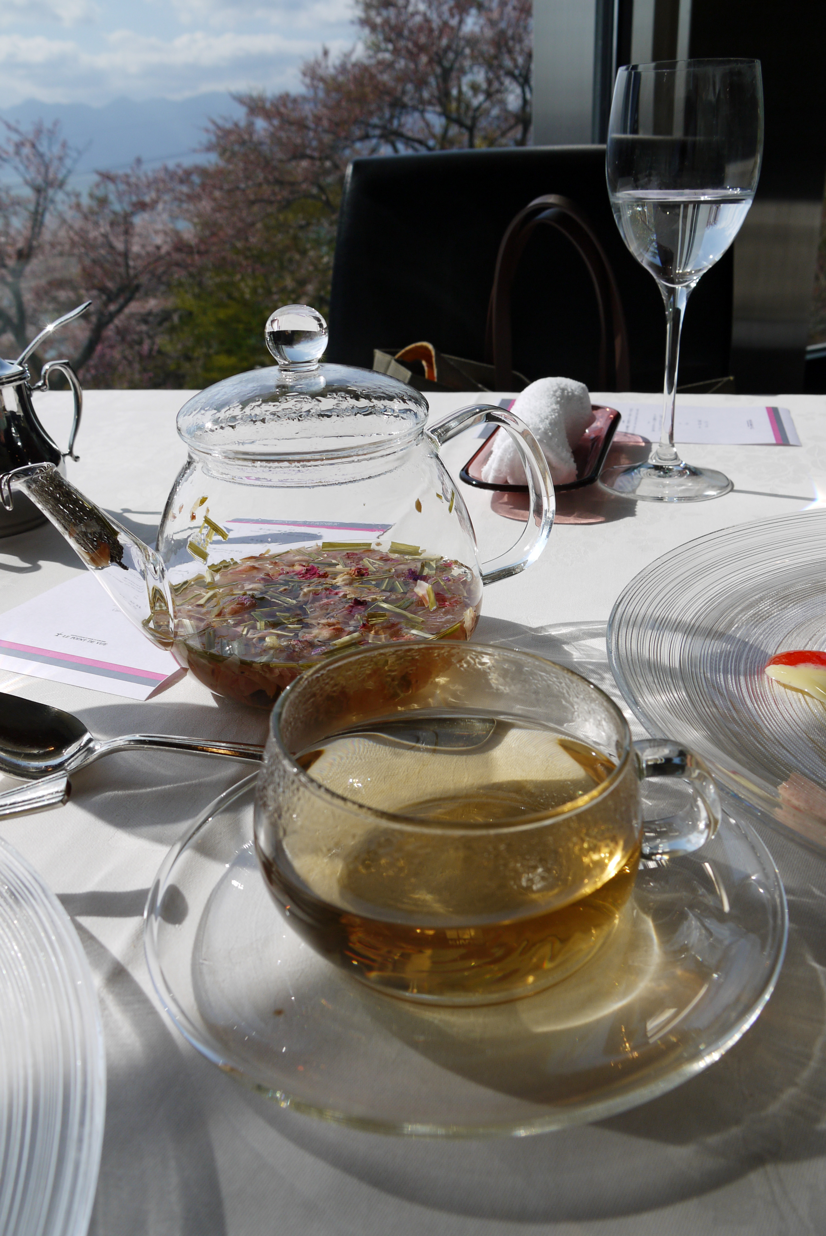 Restaurant LE POINT DE VUE in Omihachiman, Shiga prefecture, Japan.